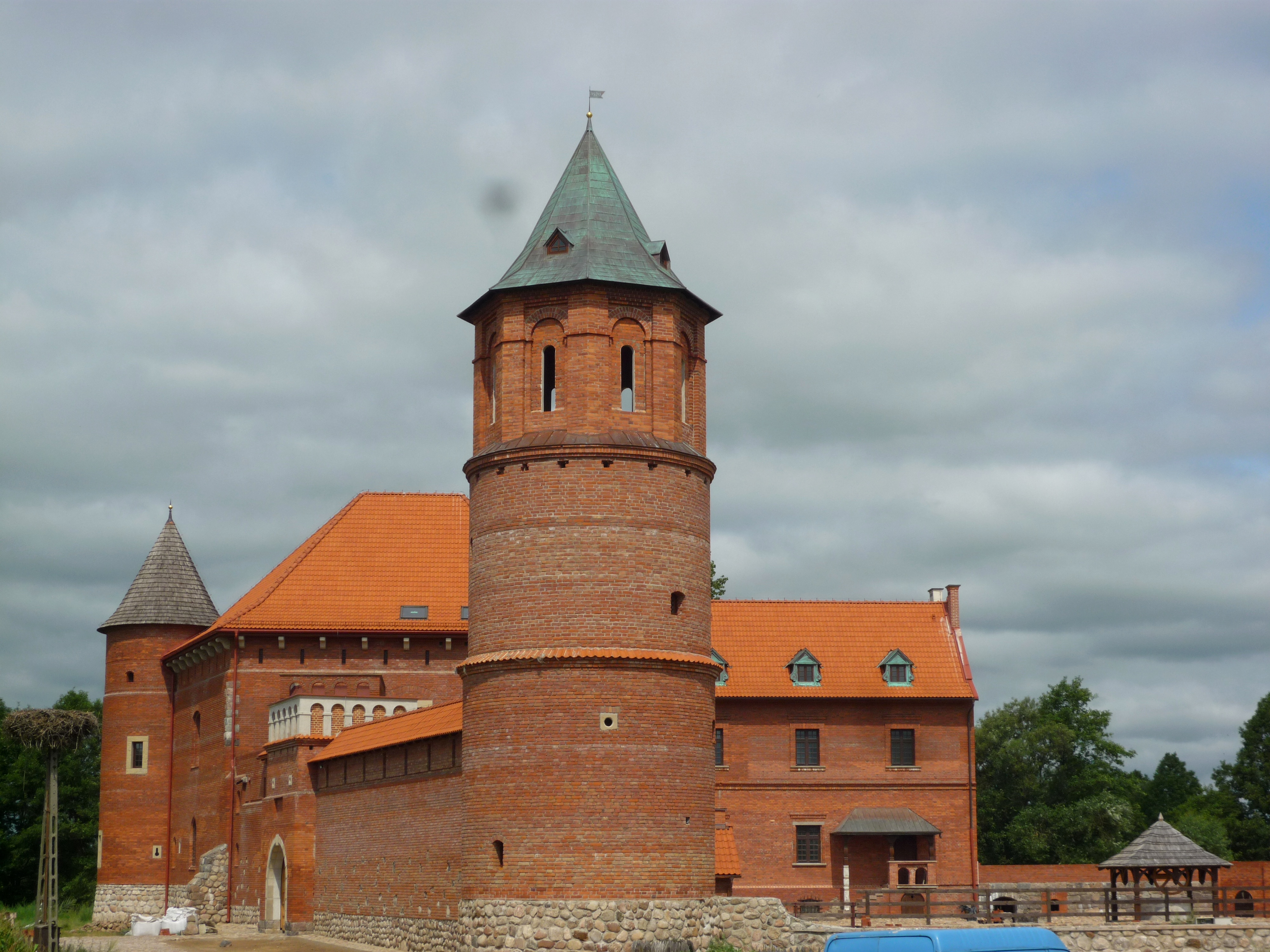 Castle in Tykocin, built in 1433 and expanded in 1550-1582 by king Sigismund Augustus. Destroyed 1771/1914, was partially rebuilt in 2005.